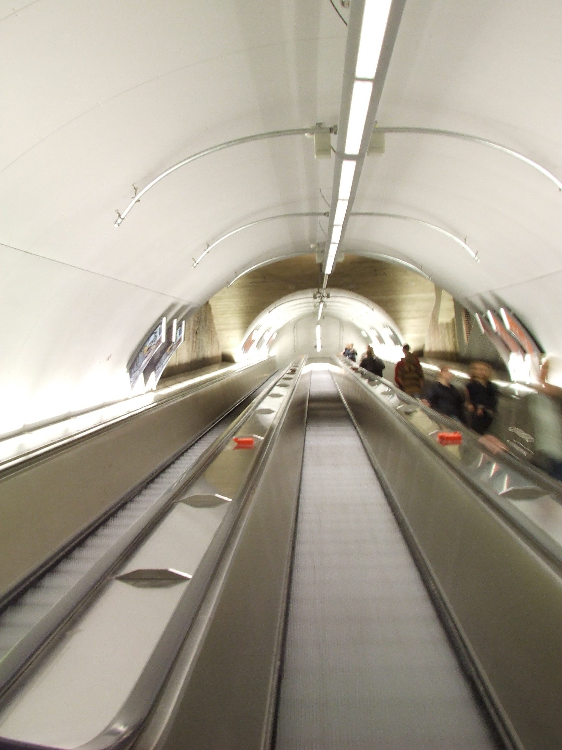 Escalators in Kamppi metro station, Helsinki